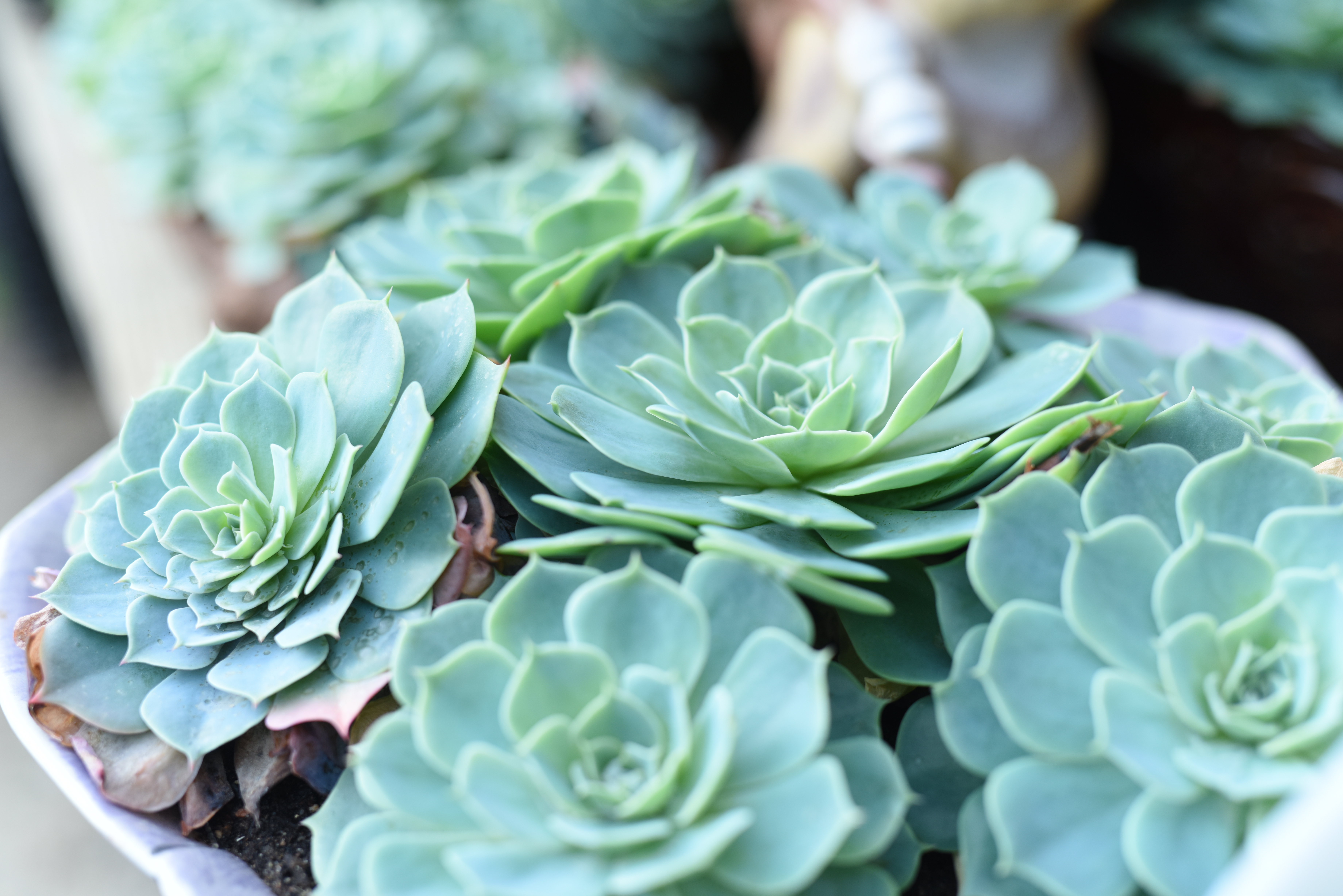 Echeveria glauca in a Connecticut greenhouse, kept at 77 degrees.